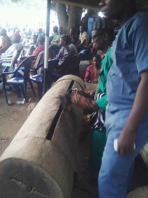 a tiv indyer